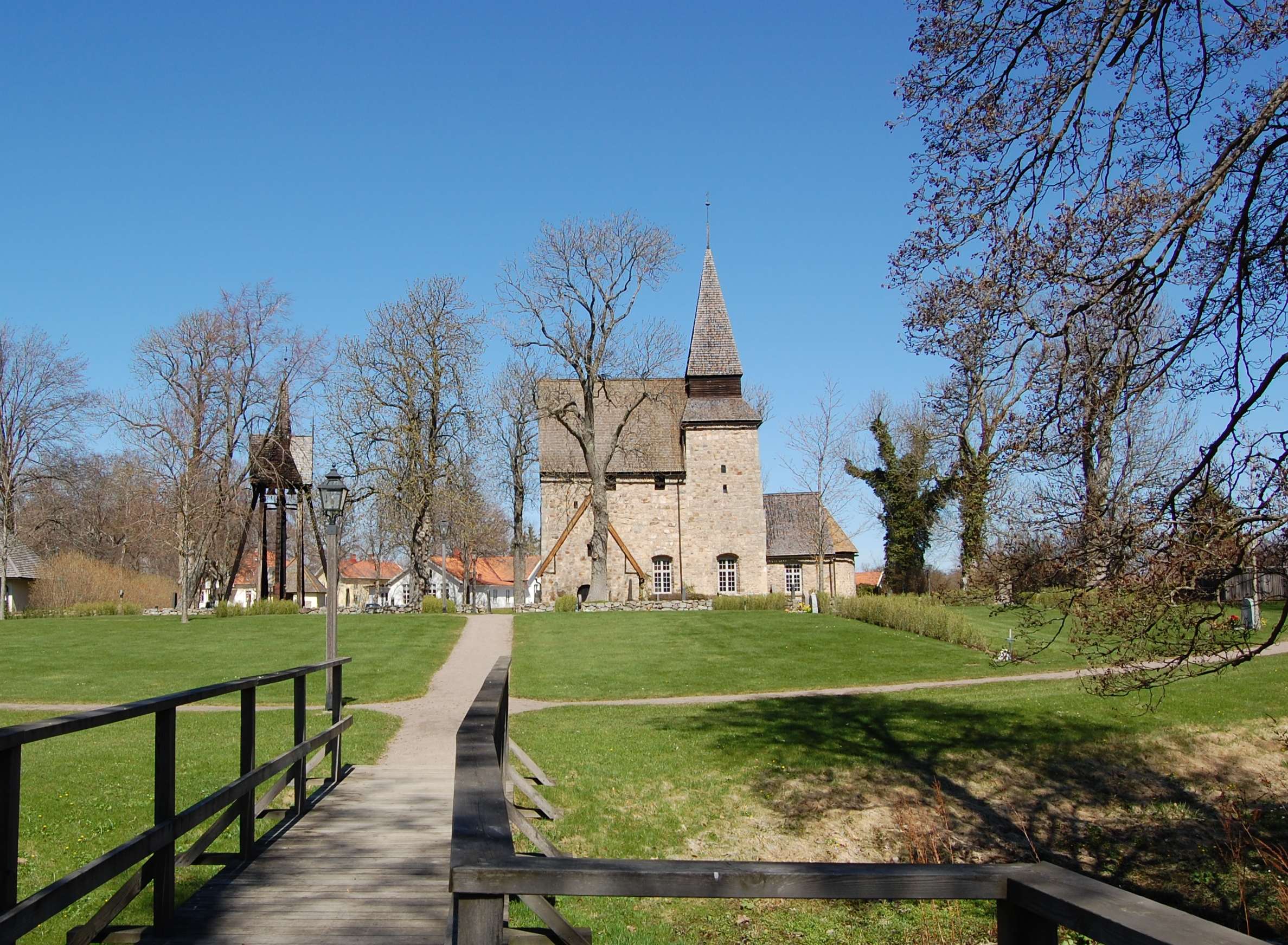 Hossmo Church.